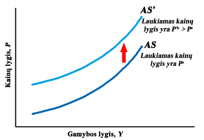 A curve that shows the curve of Aggregate Supply and the effects of the expected price level.